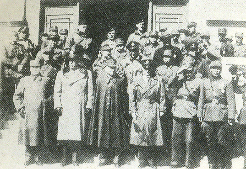 Xuzhou three people group for peace ROC 1946